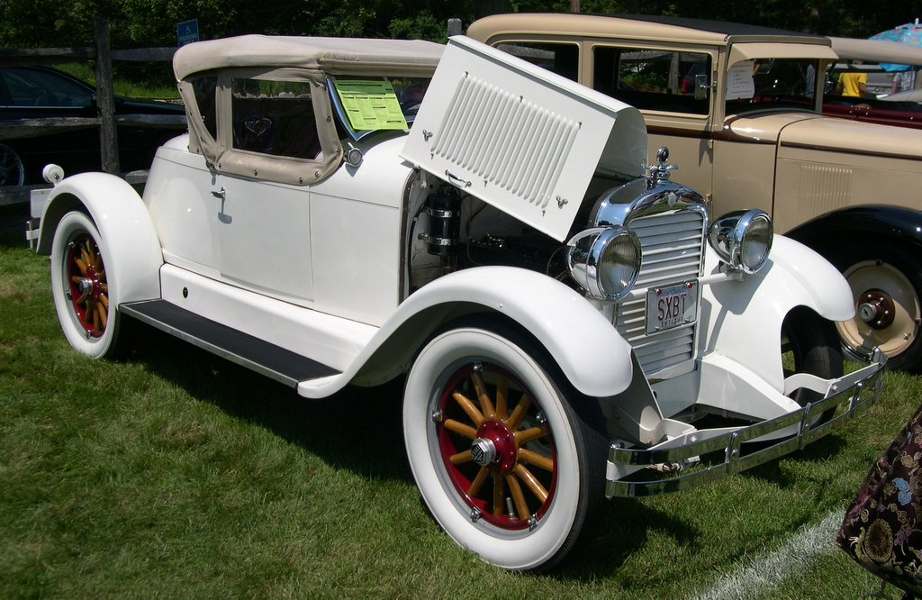 1927 Hudson Essex Speedabout